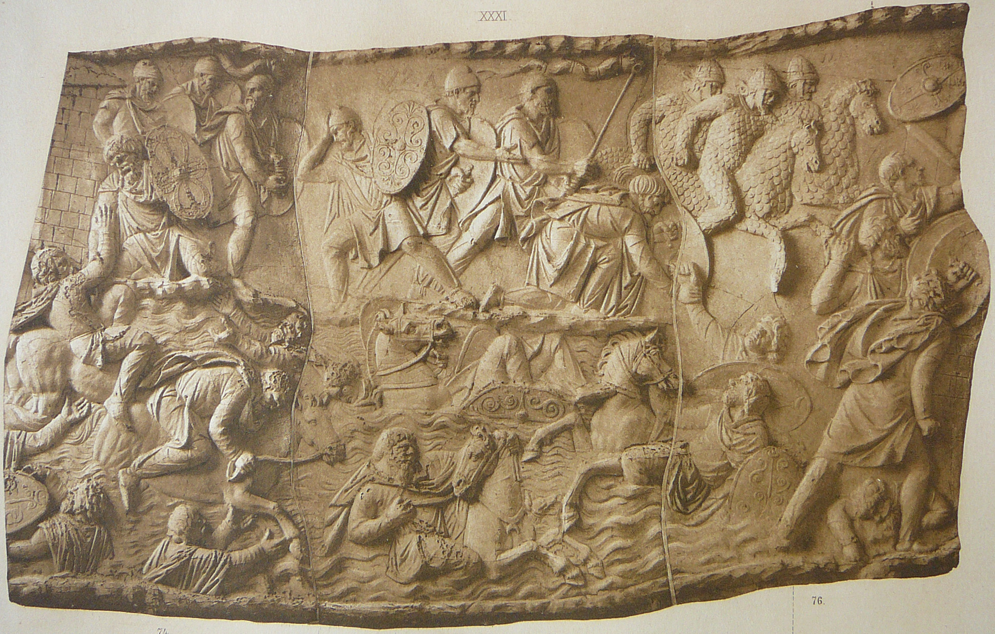 Dacian raiders crossing a river (scene XXXI)